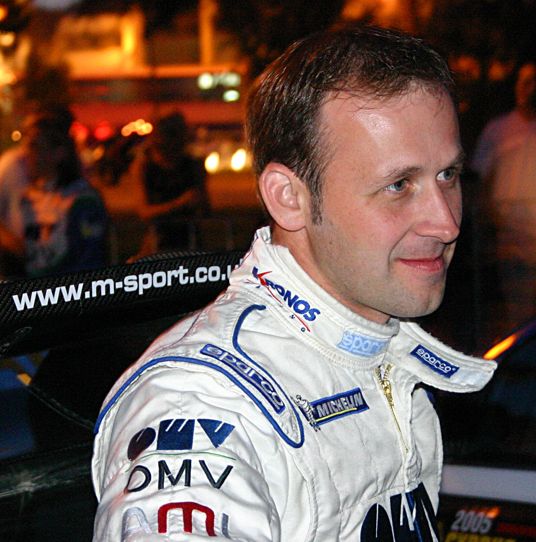 Manfred Stohl at the 2005 Cyprus Rally.